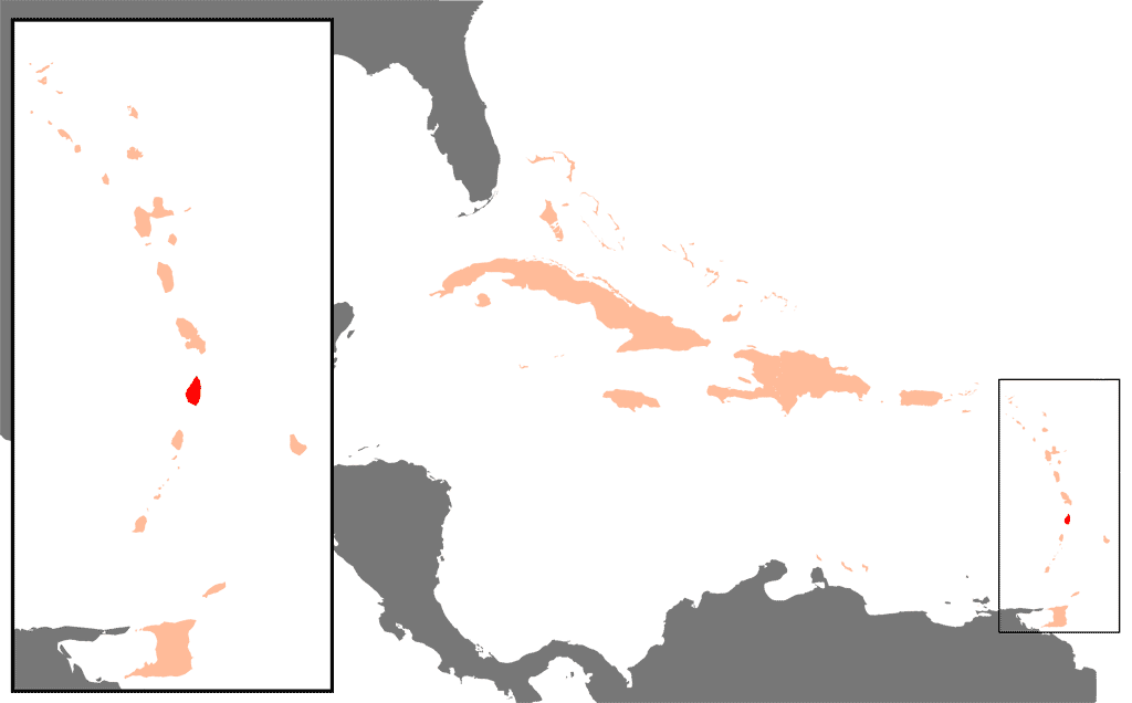 Position of St. Lucia in the Caribbean